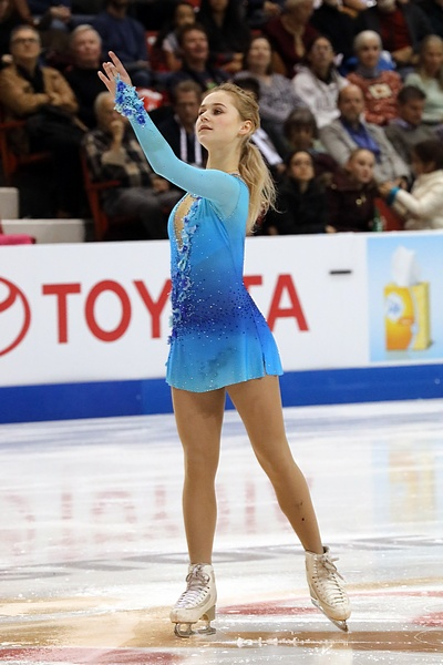 Serafima Sakhanovich at the Skate America 2017 - SP